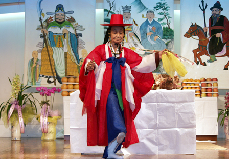 A mudang (Korean female shaman) holding a ritual (gut) to placate the angry spirits of the dead preventing them from haunting the lives of her clients. A depiction of Odin riding Sleipnir from an 18th-century Icelandic manuscript. Note: Studying Korean shamanism (Muism) and mythology you may notice the many similarities it has with other Eurasian religions and the Germanic traditional religions (for example the triune conception of God—Haneullim—manifest in Hwanin, Hwanung and Dangun, corresponding to Wotan, Thor and Ing-Frey; but also the etymological connection Dangun•Tangur—Tengri—Tonger•Thunor•Thor). In the photo above, the god represented on the cloth to the left of the priestess (right of the viewer) has striking resemblance to depictions of Wotan.